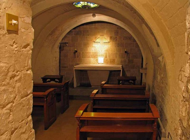 All Hallows by the Tower, Byward Street, London EC3 - Crypt chapel